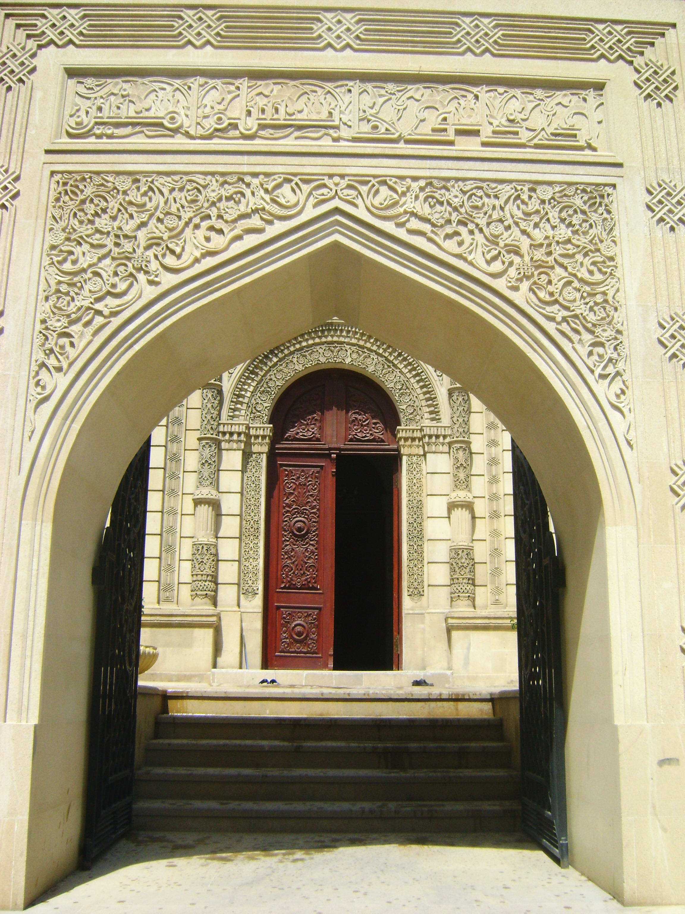 Juma_mosque-Old_City_Baku_Azerbaijan_19th_century - buil by Baku millionaire Haji Sheykh Ali aga Dadash ogly Dadashev in 1899